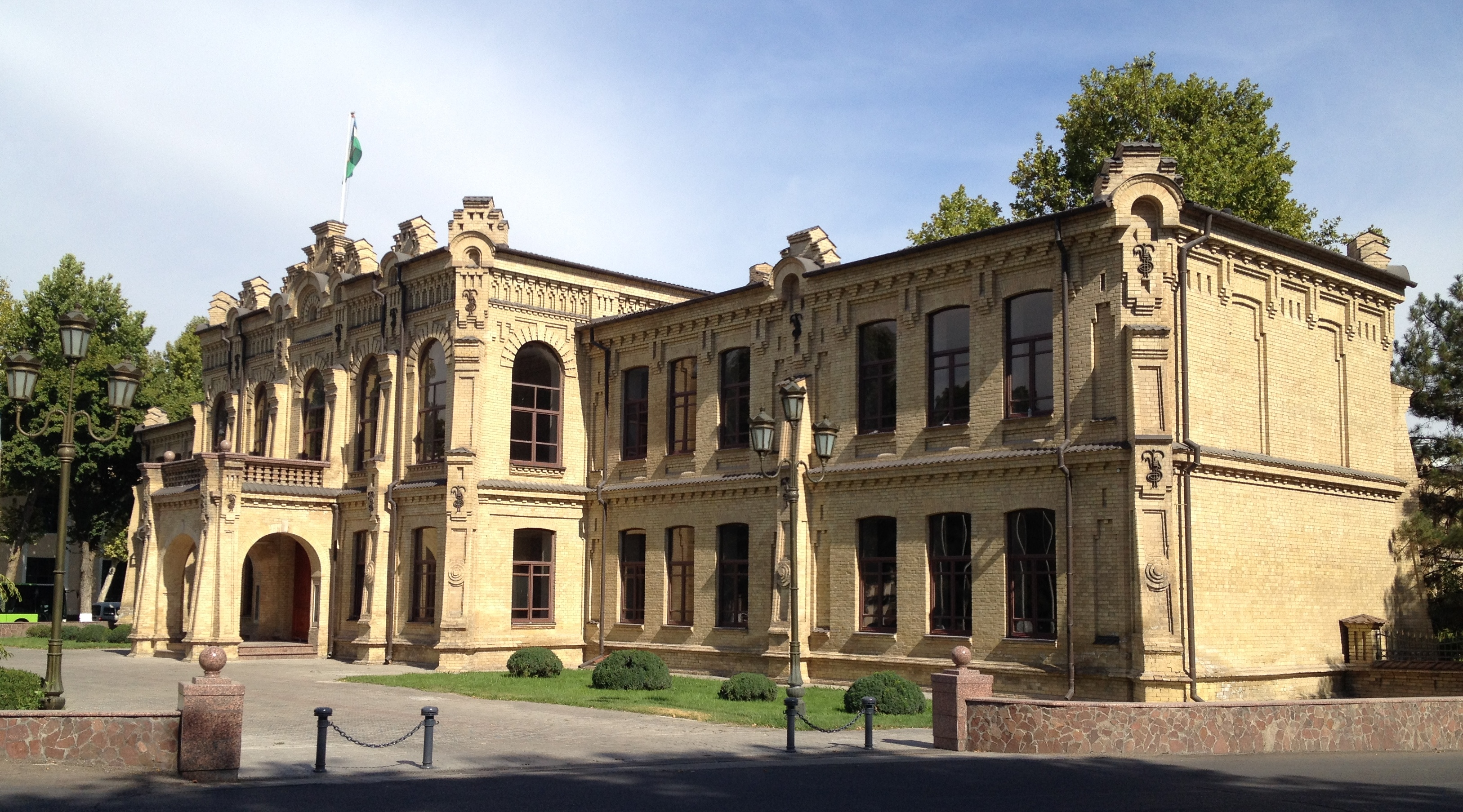 Building of Realschule in Tashkent